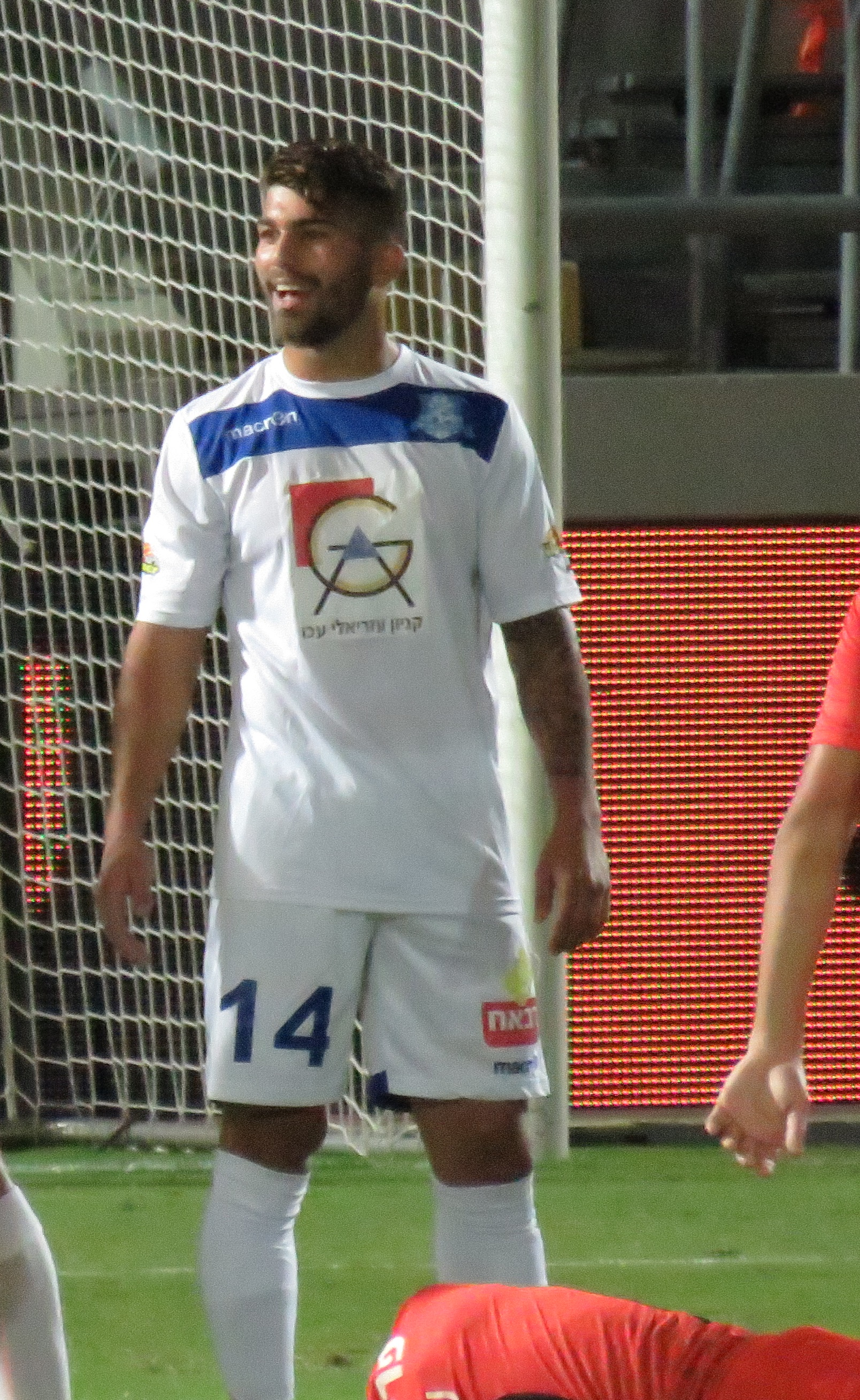 Bnei Yehuda Tel Aviv vs. Hapoel Acre - August 31, 2015